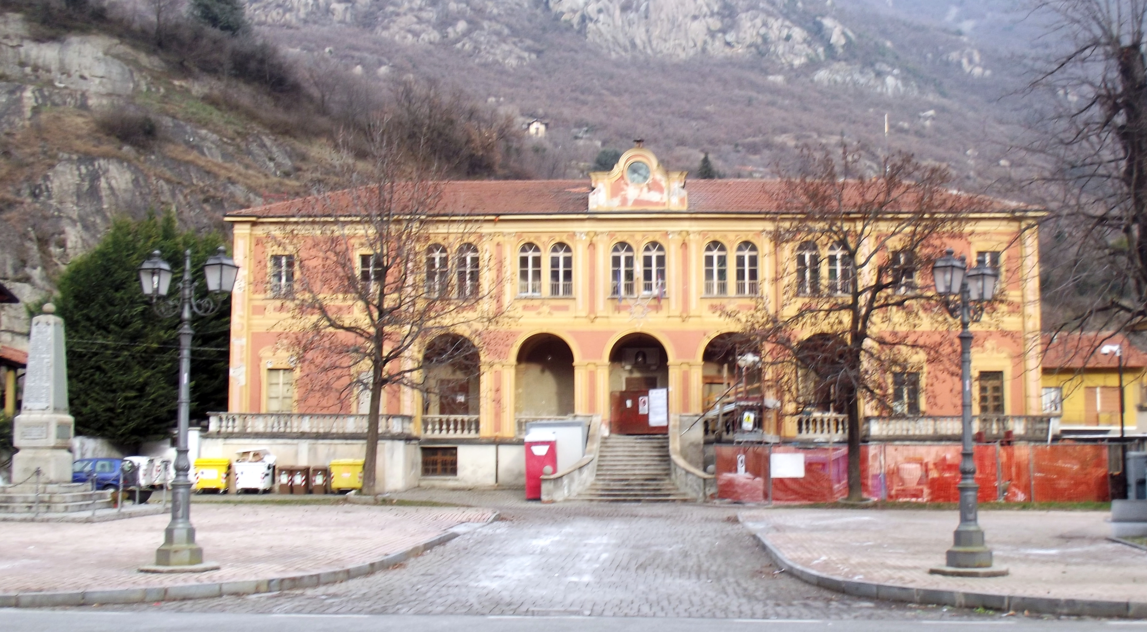 Borgone di Susa (TO, Italy): town hall